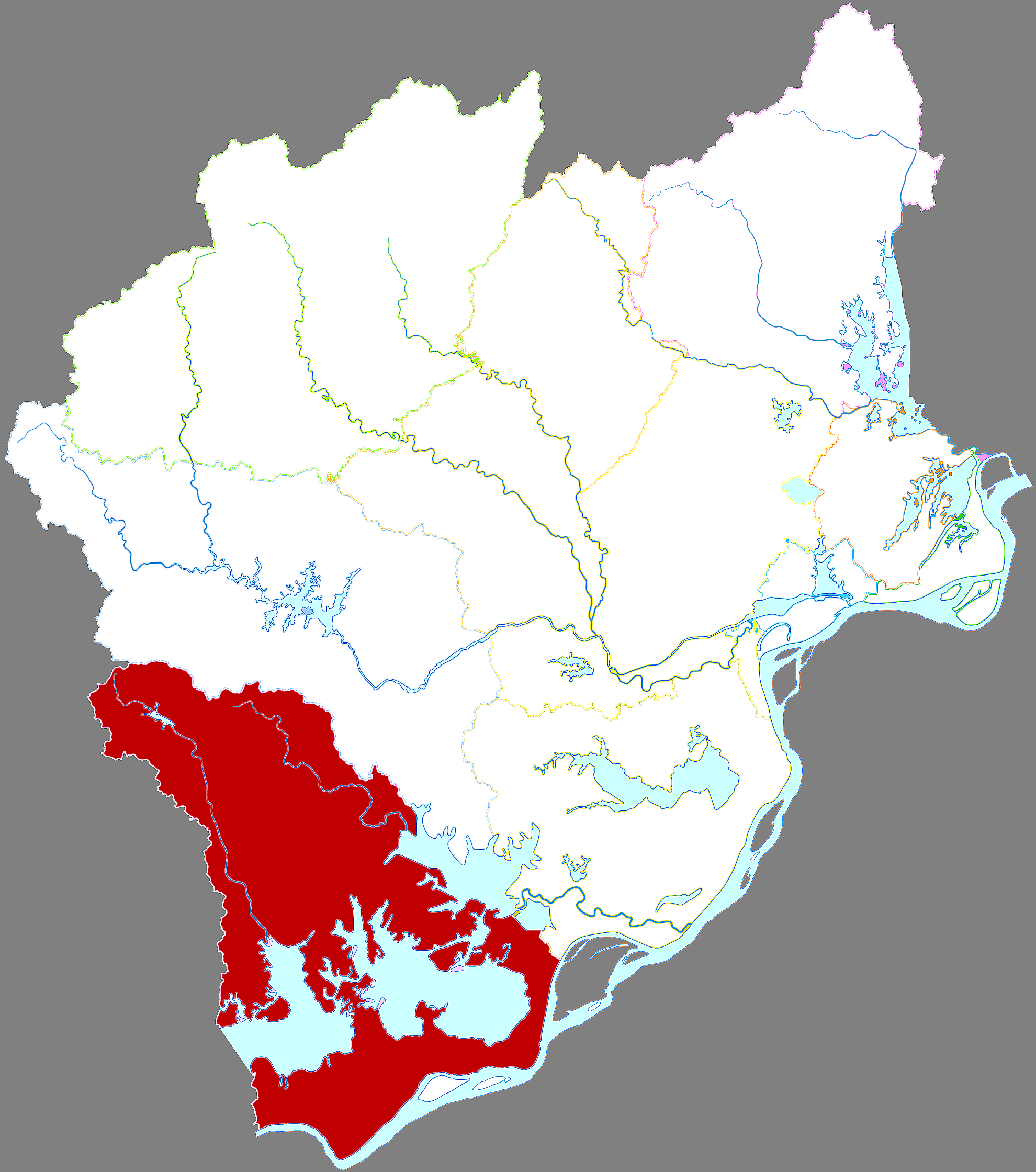 Location of Susong county in Anqing city, China